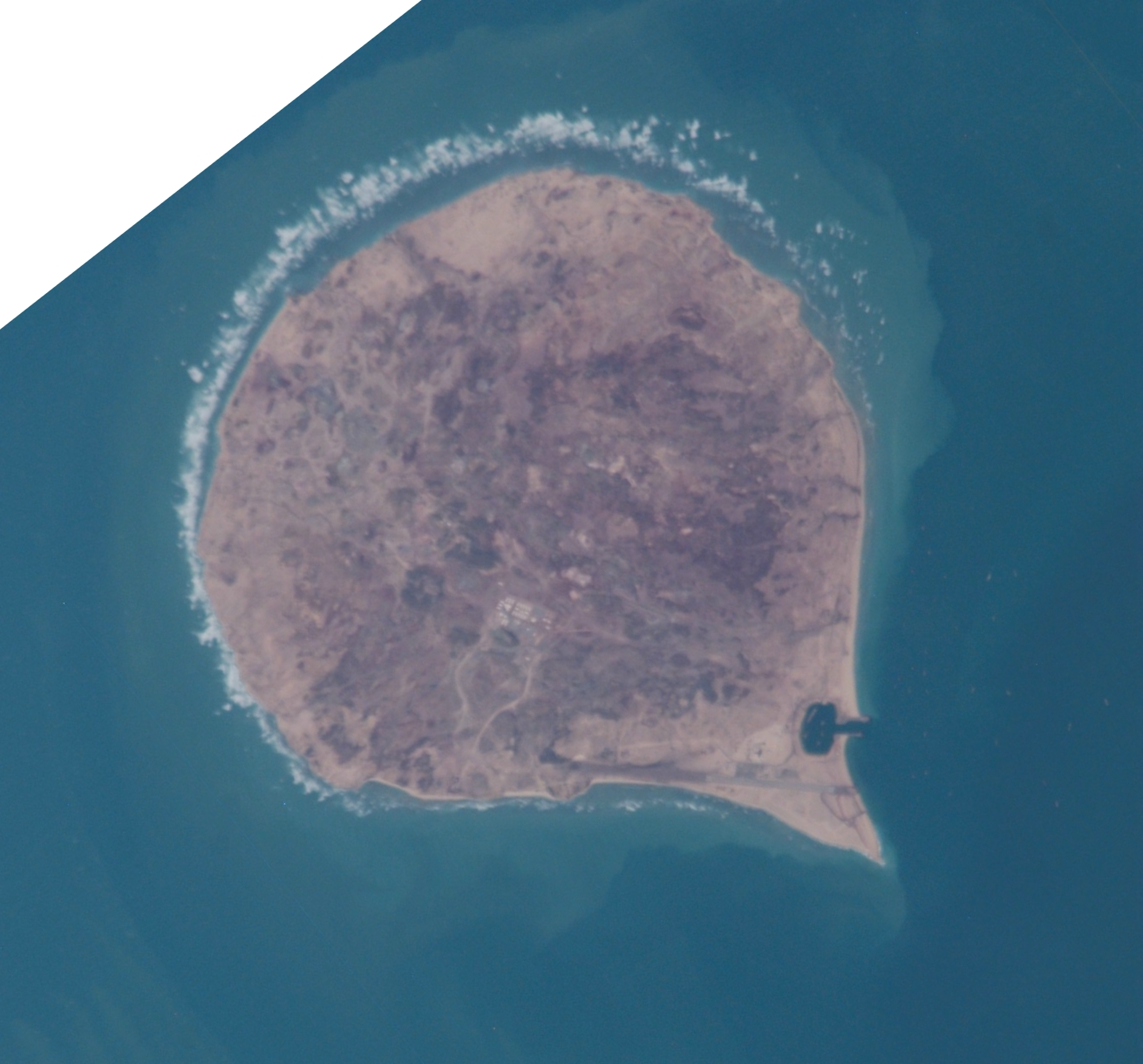 Sir Abu Nu'ayr Island, United Arab Emirates, Persian Gulf rotated 38° left to put north up cut